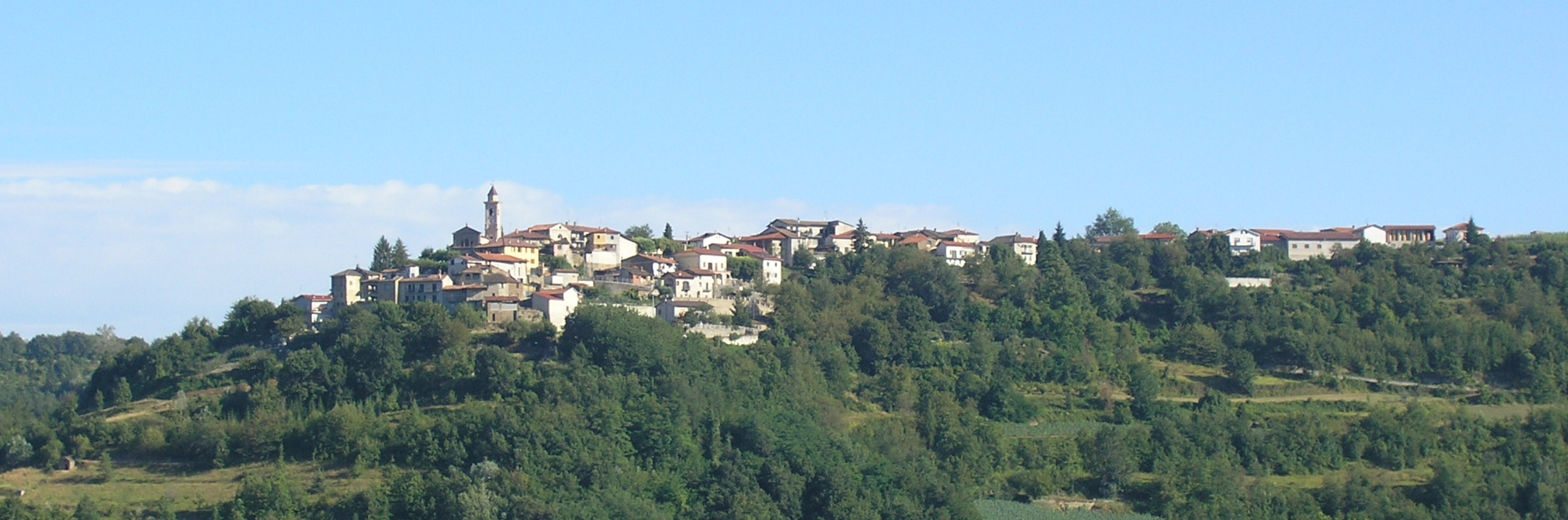 Landscape of Torresina (Italy)